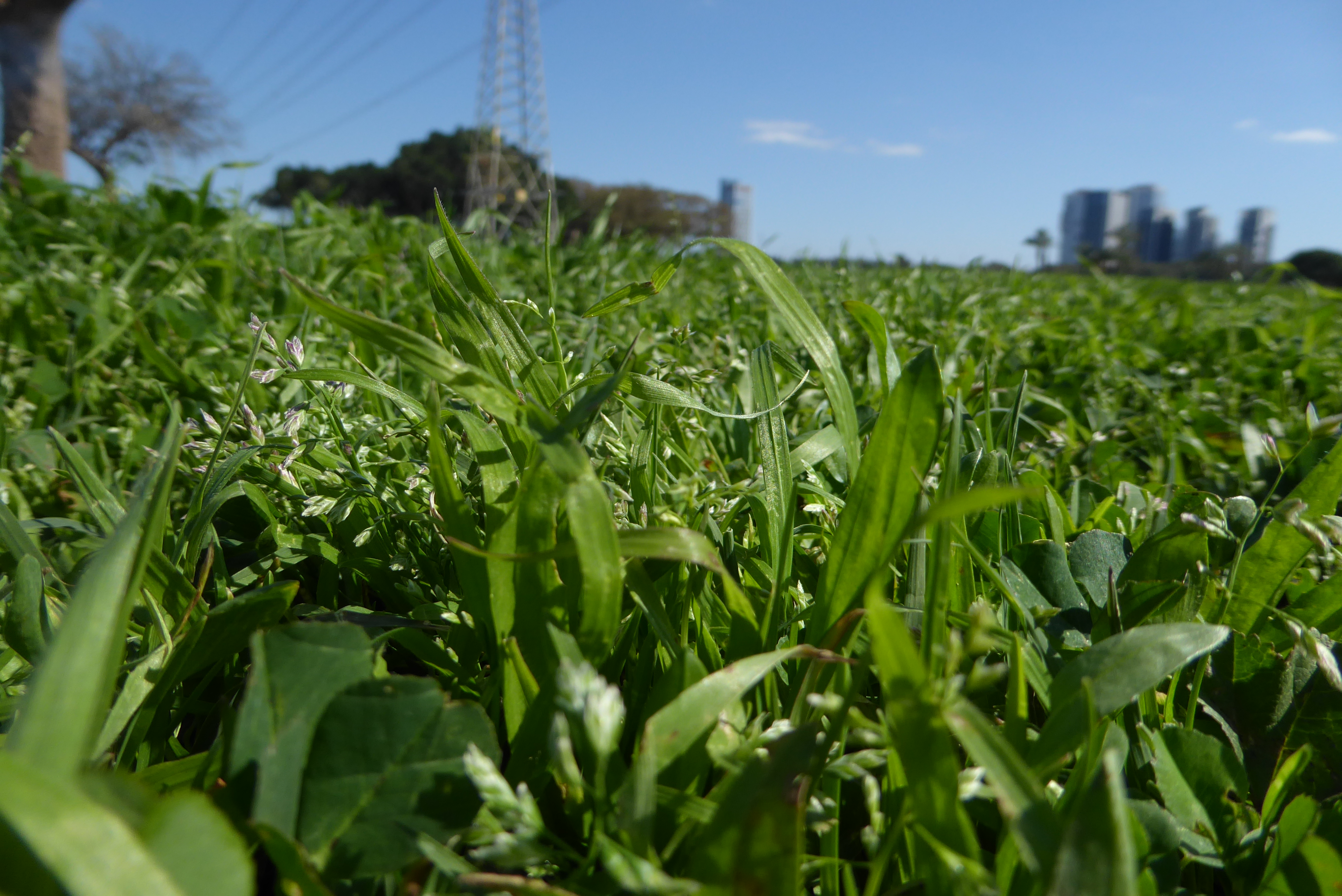 Flora of Israel